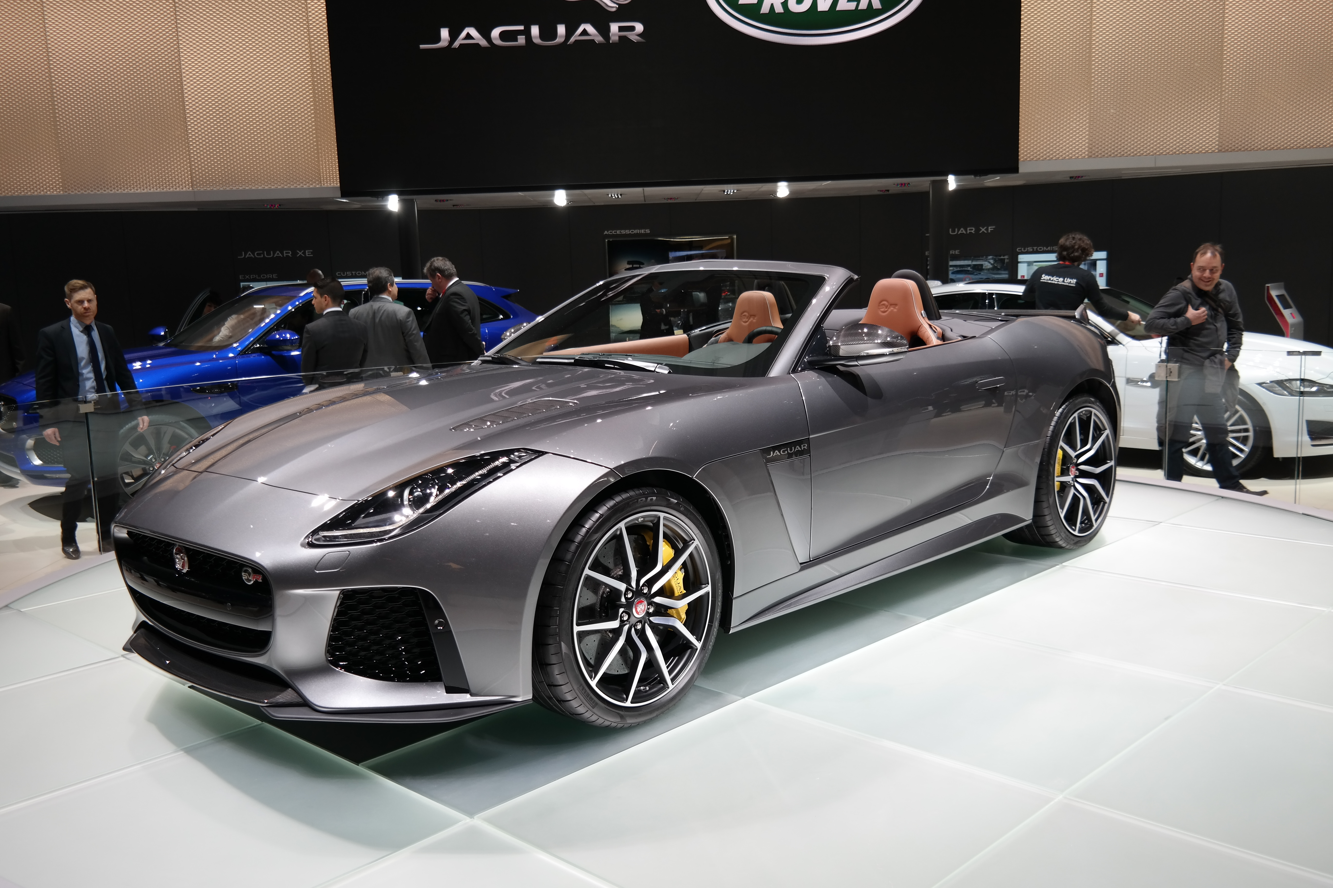 Geneva Motor Show 2016 (photo taken on the first press day)